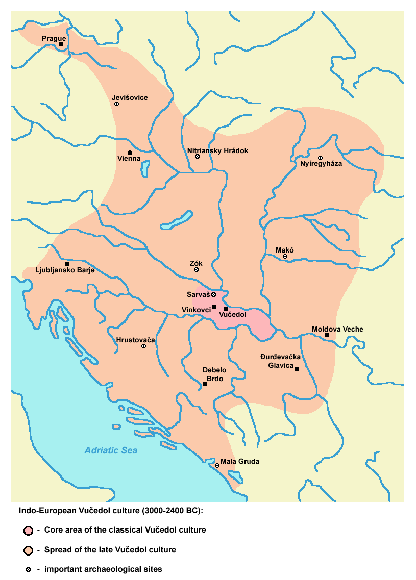 Map of the Indo-European Vučedol culture (3000-2400 BC).